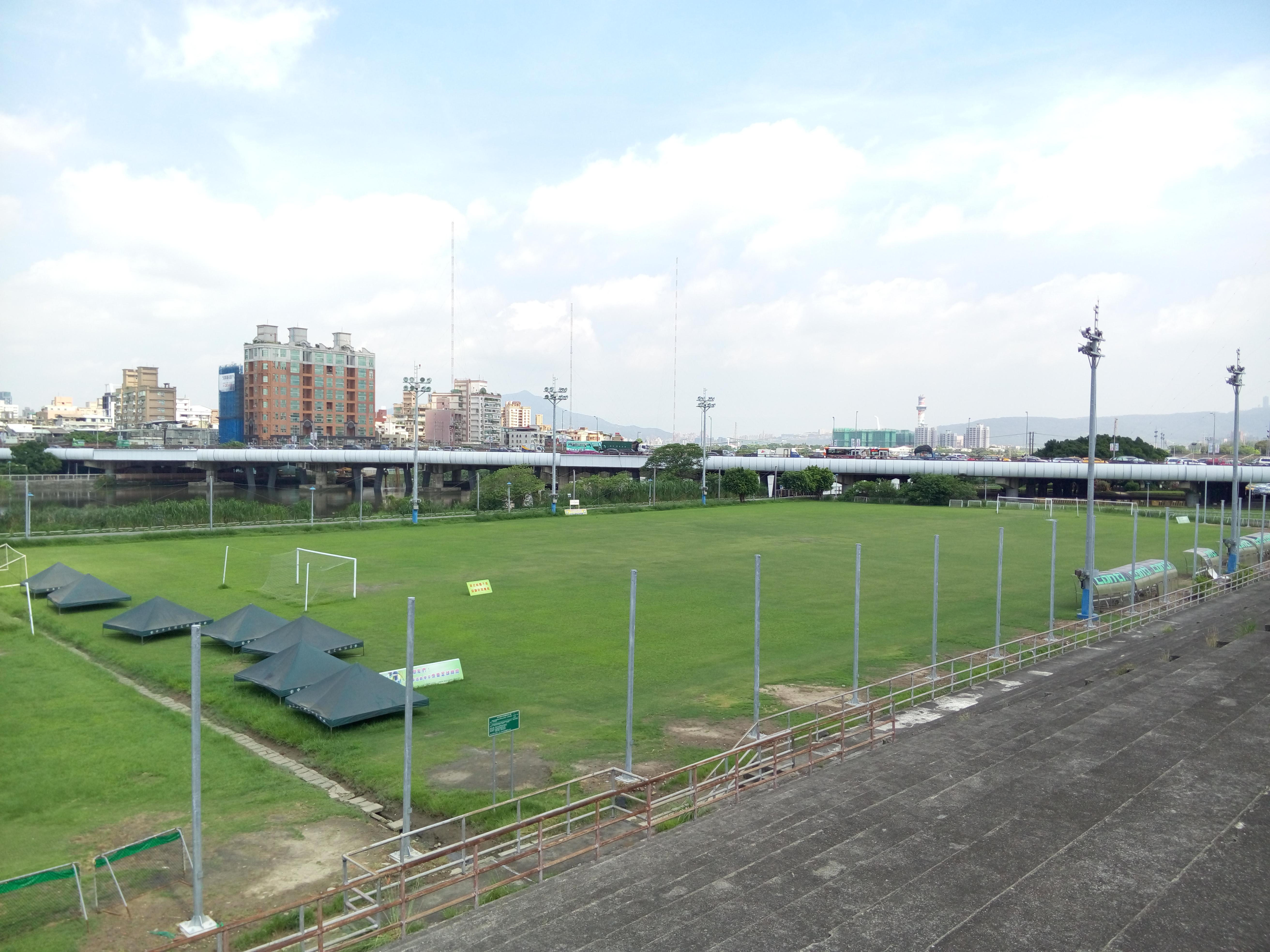 Taiwan Taipei BaiLing Arena